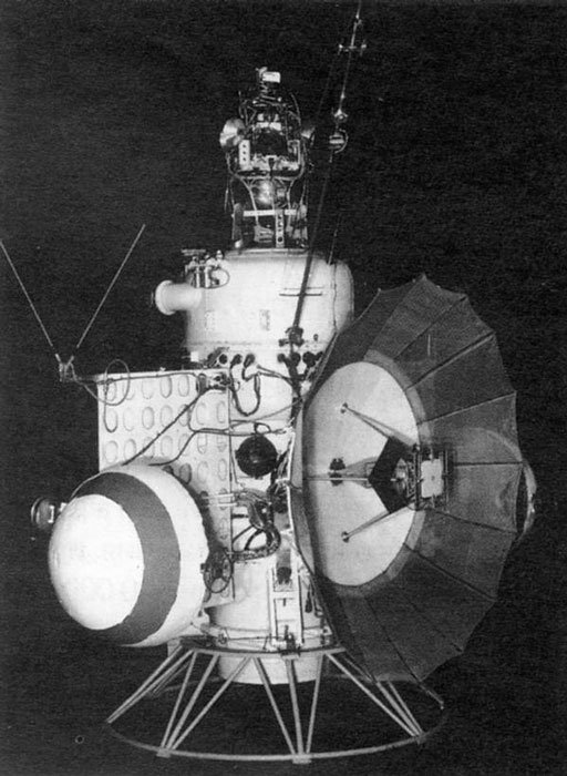 (November 1, 1962) Mars 1 was an automatic interplanetary station launched in the direction of Mars, with the intent of flying by the planet at a distance of about 11,000 km. It was designed to image the surface and send back data on cosmic radiation, micrometeoroid impacts and Mars' magnetic field, radiation environment, atmospheric structure, and possible organic compounds. After leaving Earth orbit, the spacecraft and the booster fourth stage separated and the solar panels were deployed. Early telemetry indicated that there was a leak in one of the gas valves in the orientation system so the spacecraft was transferred to gyroscopic stabilization. Sixty-one radio transmissions were held, initially at two day intervals and later at 5 days in which a large amount of interplanetary data were collected. On 21 March 1963, when the spacecraft was at a distance of 106,760,000 km from Earth on its way to Mars communications ceased, probably due to failure of the spacecraft orientation system. Mars 1 closest approach to Mars occurred on 19 June 1963 at a distance of approximately 193,000 km, after which the spacecraft entered a heliocentric orbit.